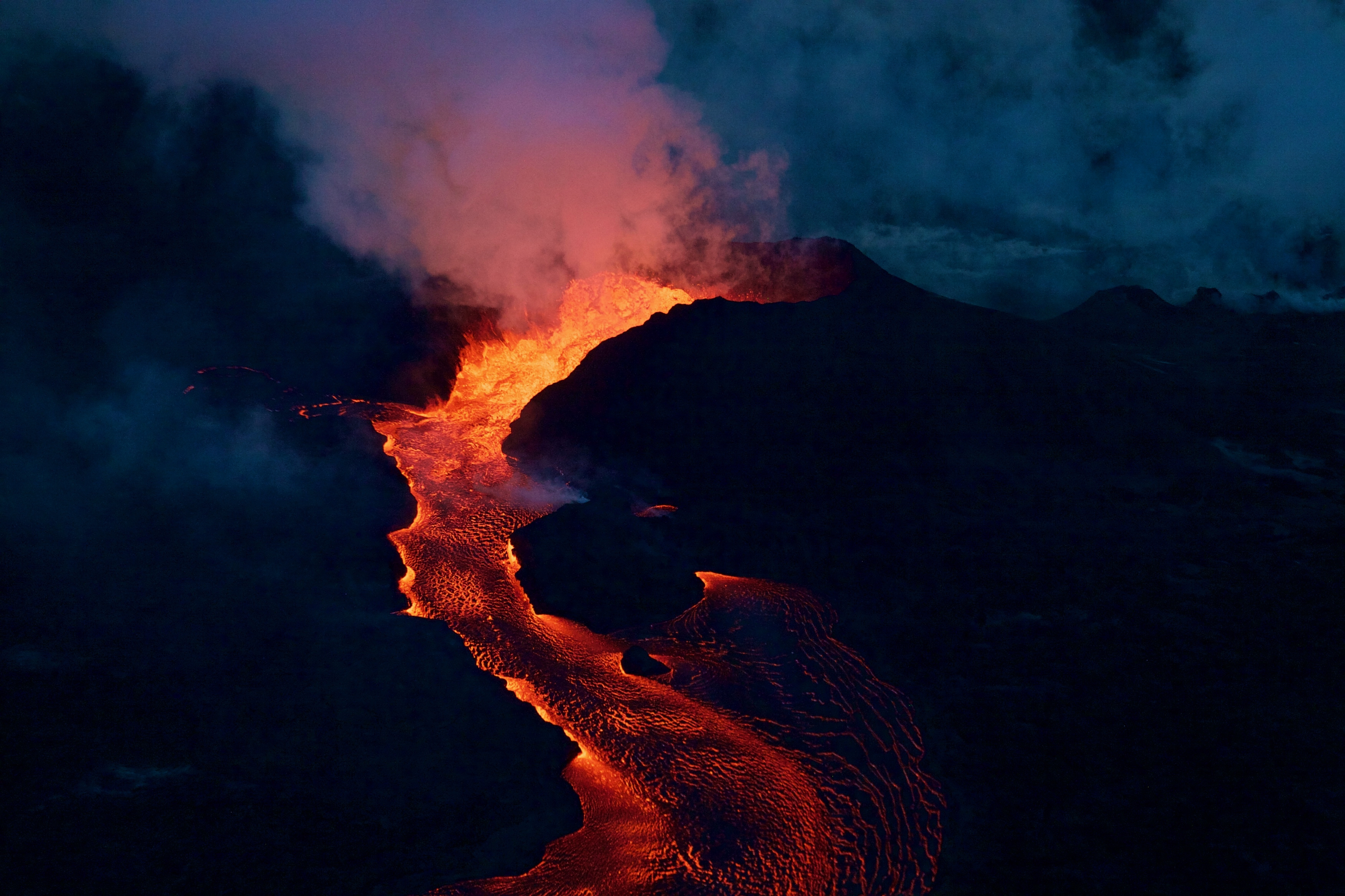 Kilauea's Fissure 8 cone erupting in the early morning of June 28, 2018, in the Lower East Rift Zone.